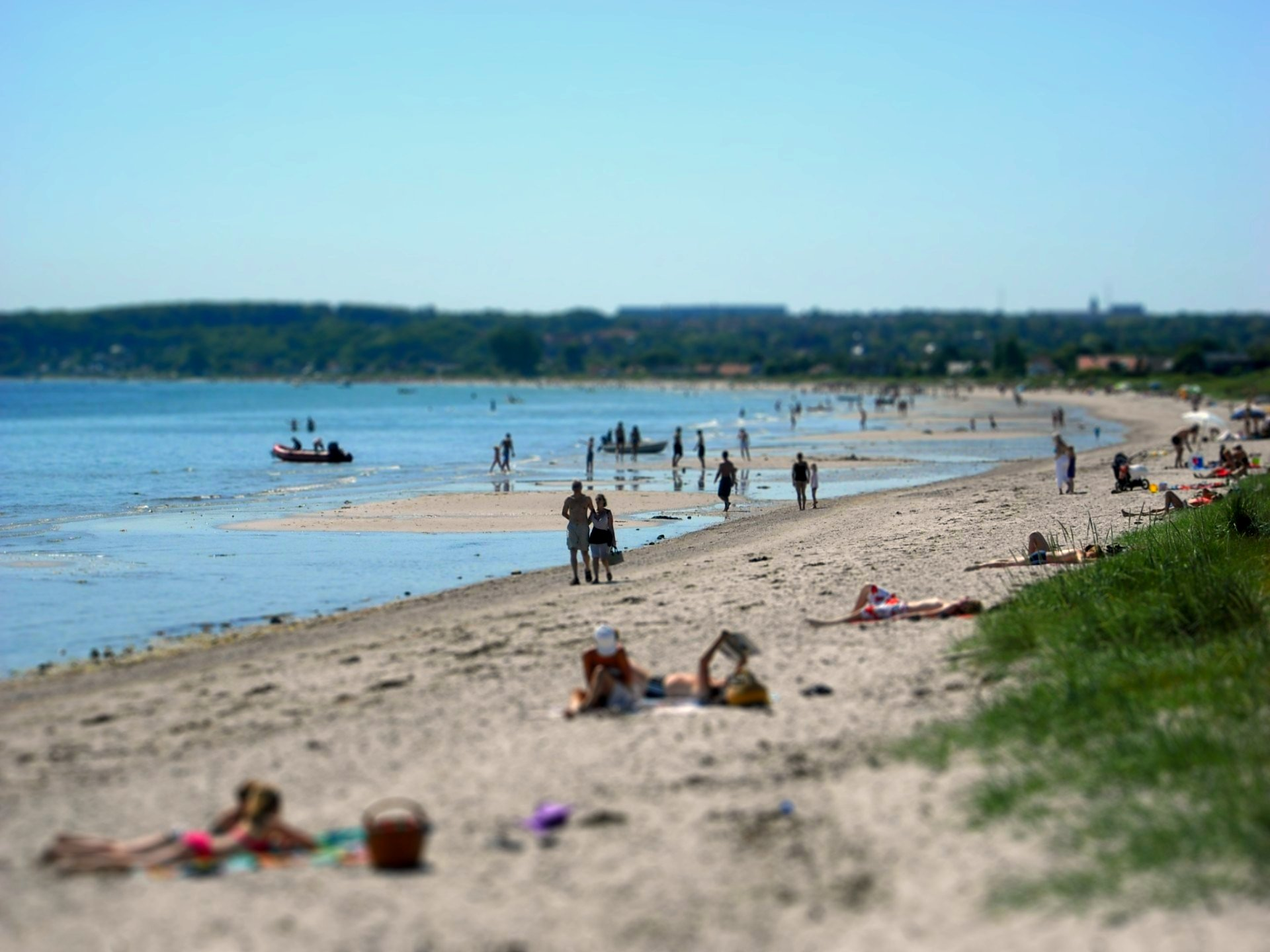 Riiskov beach in summer, 2015